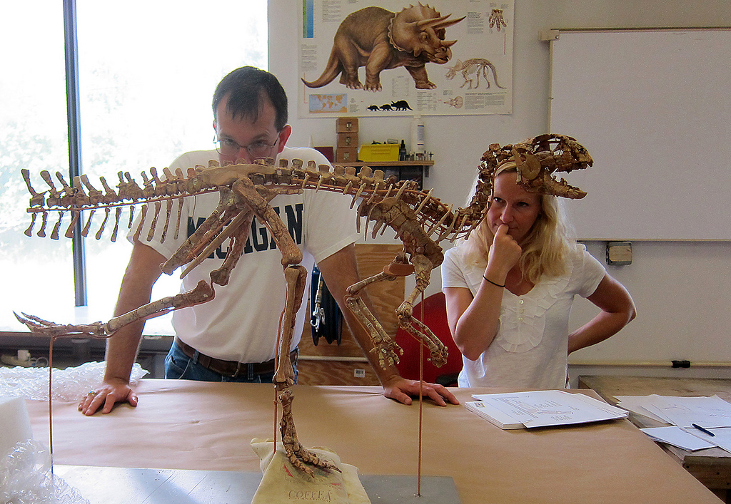 Dr. Ron Tykowski and Jennifer Forman contemplate the Proctor Lake 'hypsilophodont' pose.